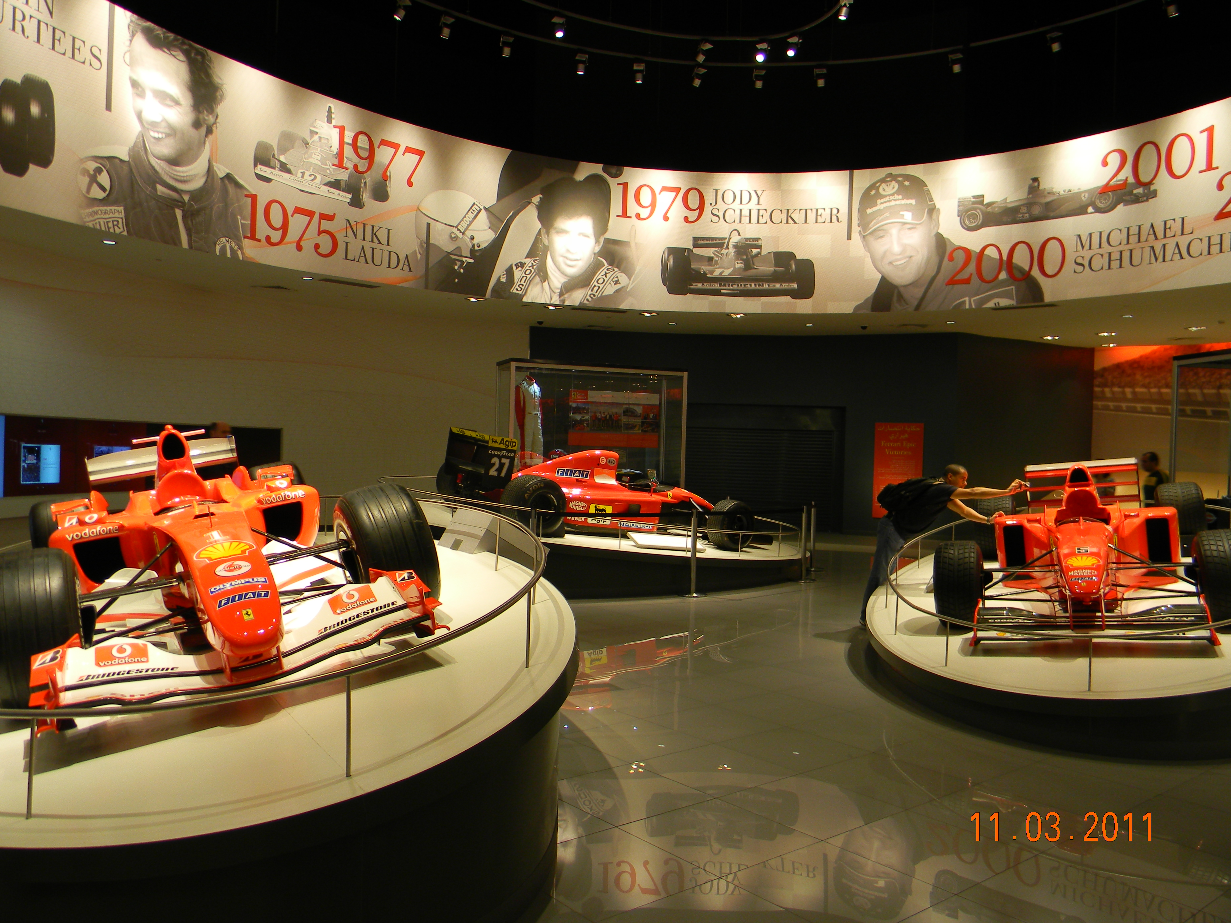 Inside the Galleria Ferrari